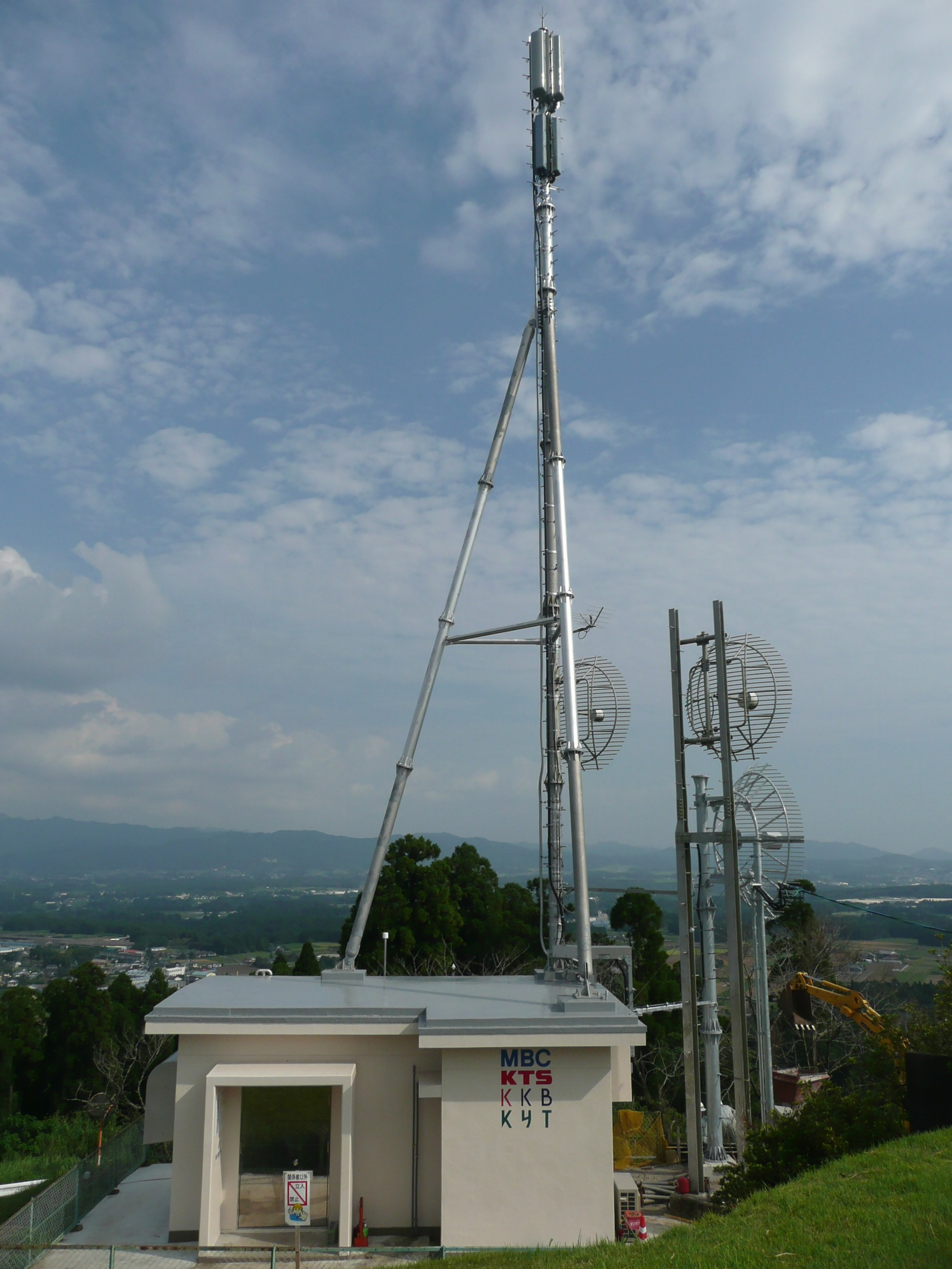 Sueyoshi Digital TV Repeater (MBC,KTS,KKB,KYT - Soo City, Kagoshima, Japan)